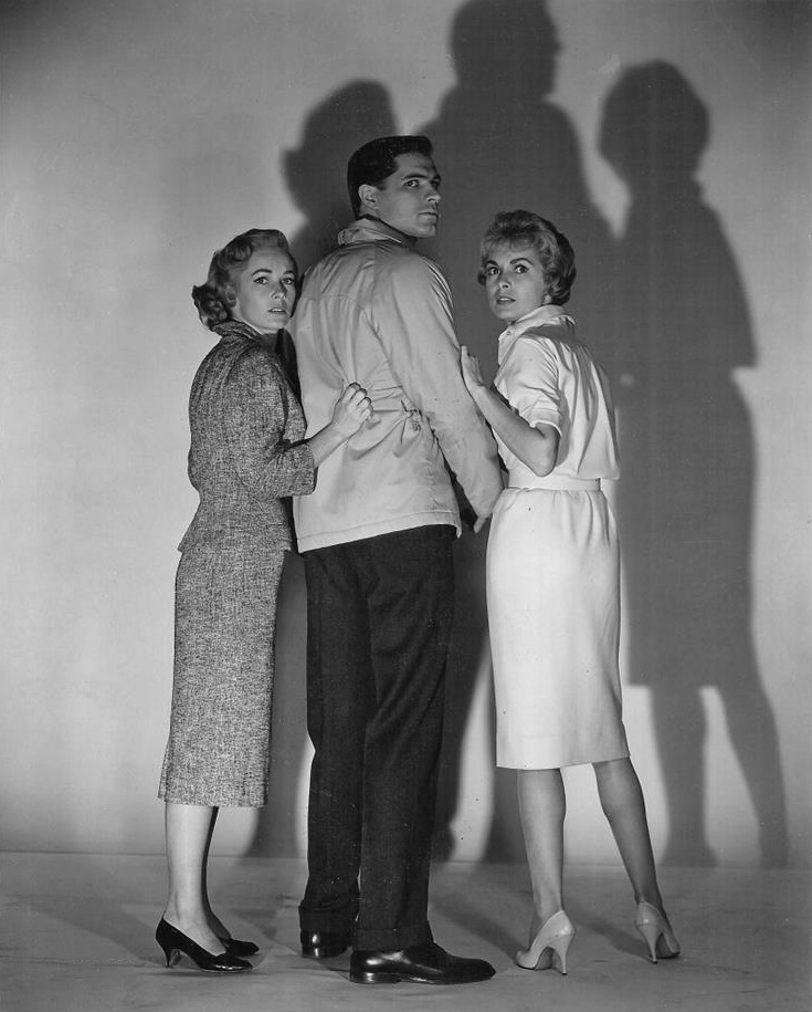 Vera Miles, John Gavin & Janet Leigh still from 1960 film Psycho. See also film still. No copyright notice.